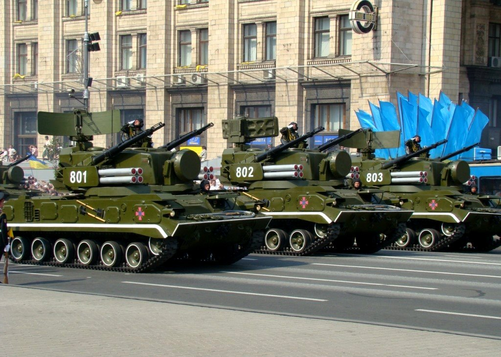 Ukrainian 9K22 Tunguska vehicles during the Independence Day parade in Kiev, Ukraine in 2008.